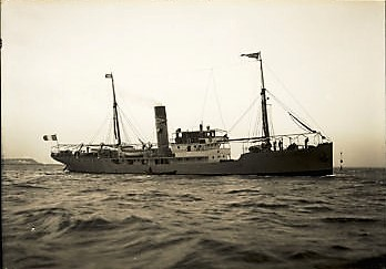 Saint Francois Smith's Dock Co Ltd Photographic Negative Plate. Ships on trial, men visible on the bridge and the around vessel